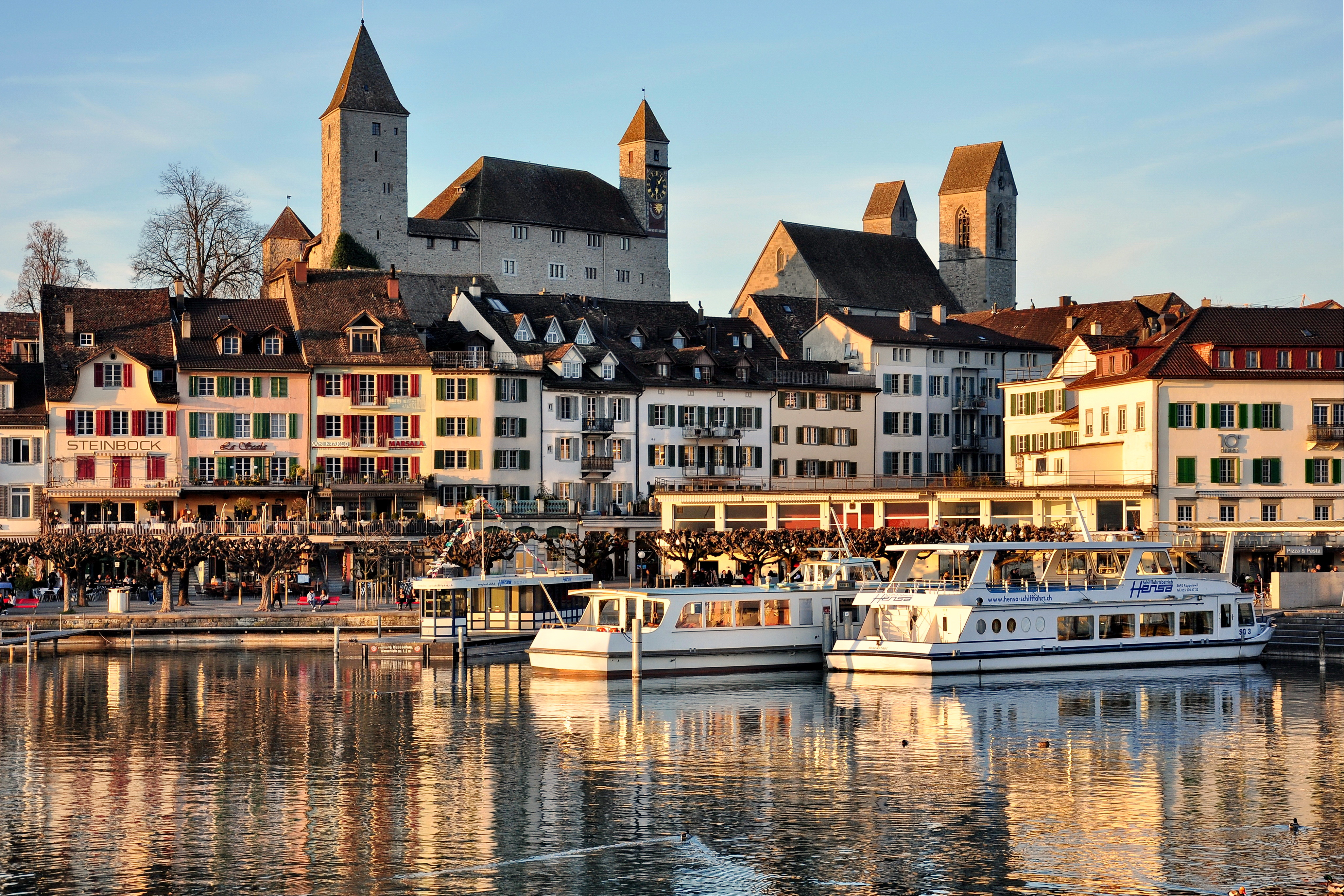 Harbour area and See-Quai in Rapperswil (Switzerland), as seen from Seedamm, Rapperswil castle and Stadtpfarrkirche (St. John's Church) in the background.